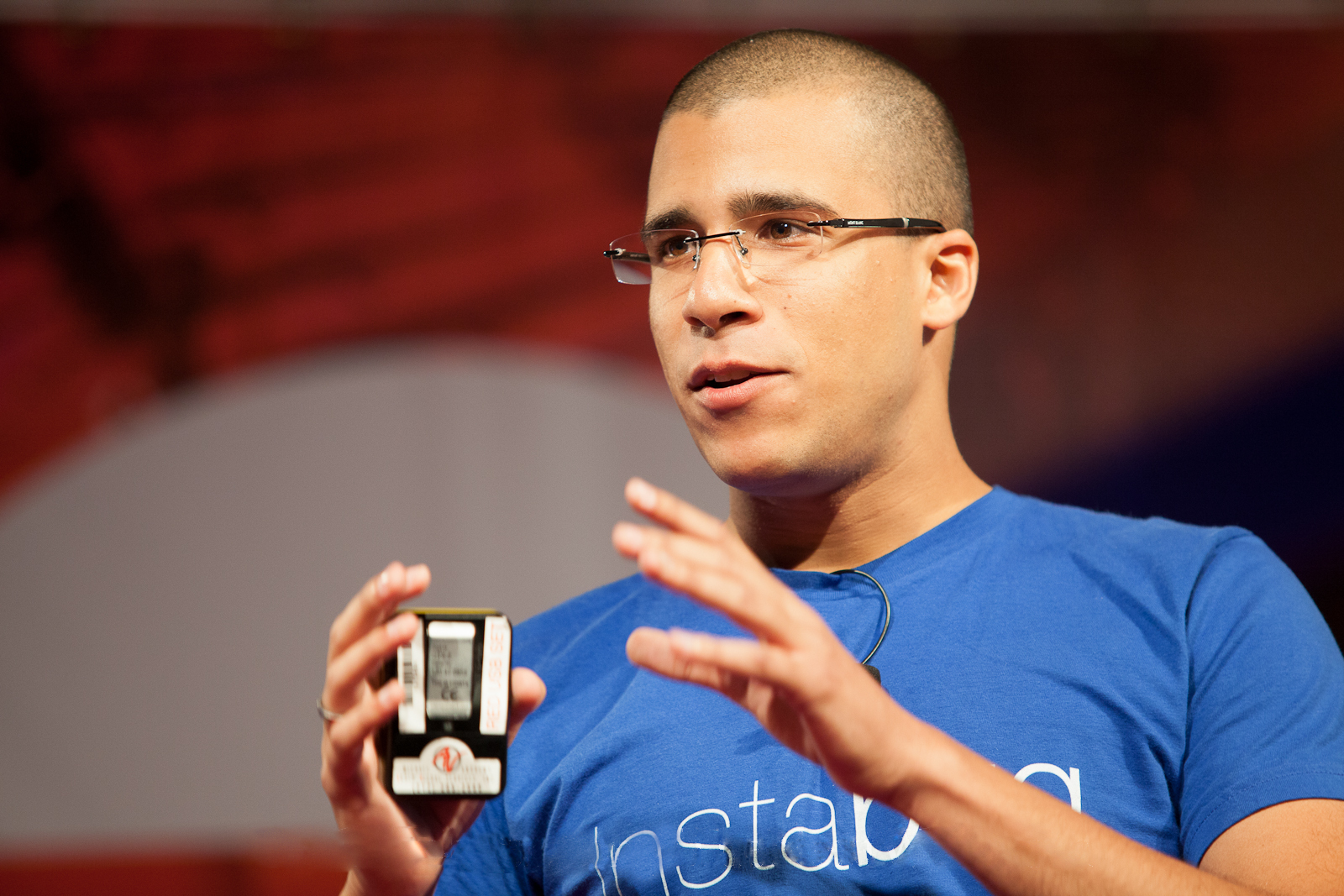 The Next Web USA 2013